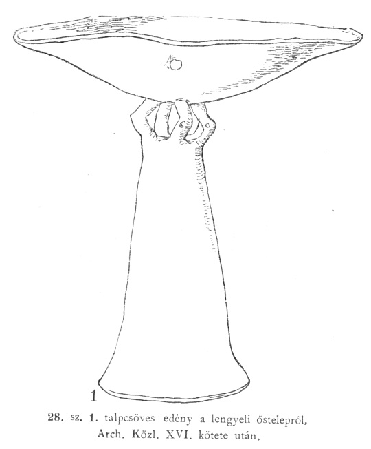 Lengyel culture, loc. Lengyel